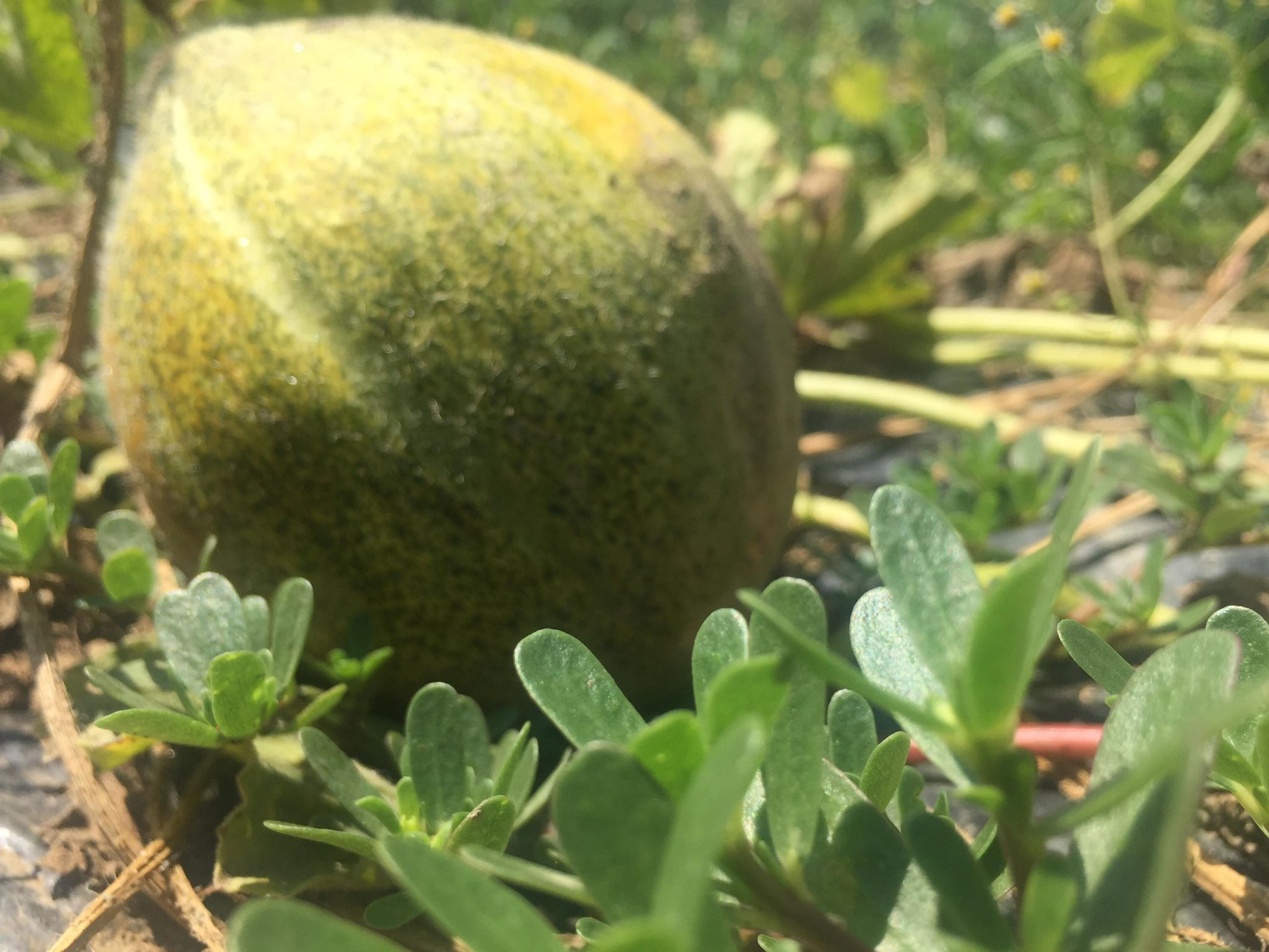 Macedonian melon in Trubarevo village